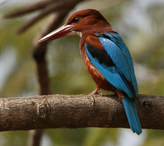 White-throated Kingfisher, White-breasted Kingfisher or Smyrna Kingfisher Halcyon smyrnensis in Hyderabad, India.